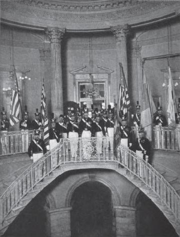 VCASNY on duty for War French Commission during WWI